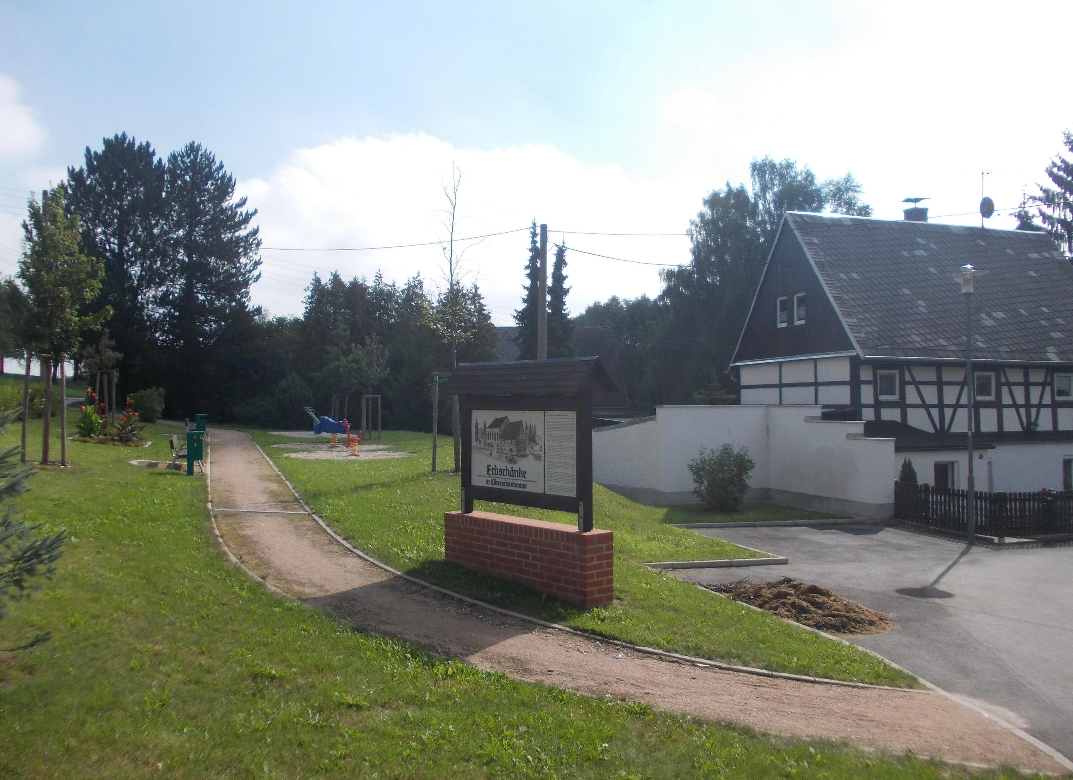 Green space at the place of the inn (demolished in 2011) in Oberschindmaas (Dennheritz, Zwickau district, Saxony)